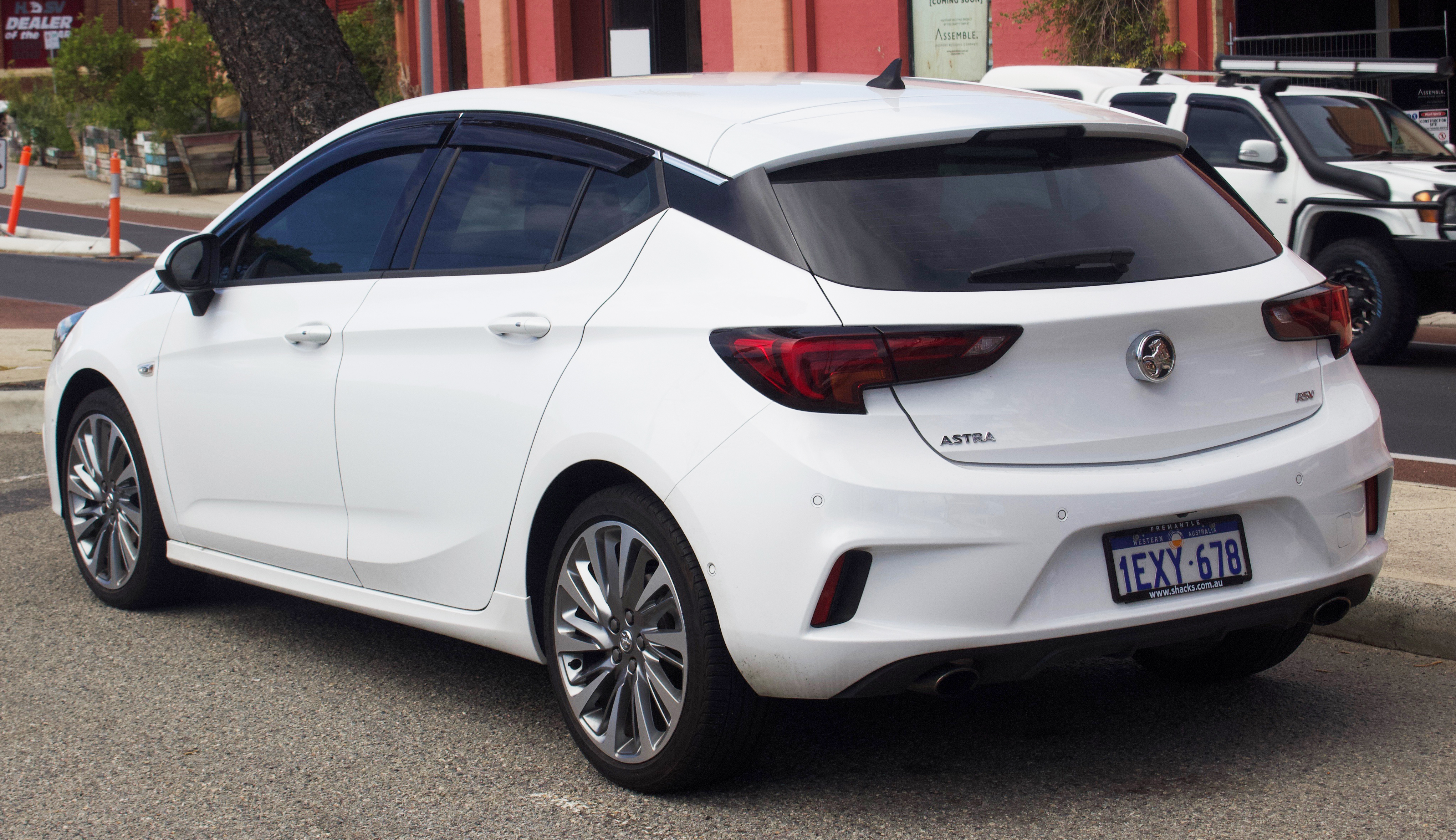 2016 Holden Astra (BK) RSV hatchback. The plate number is from 2015 however, the BK Astra was released in 2016. Photographed in Fremantle, Western Australia, Australia.